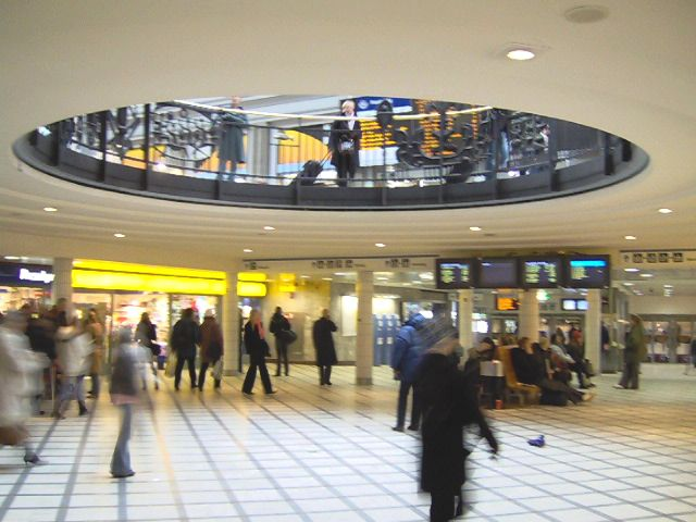 The so called spitting cup at Stockholm Central station in Sweden.